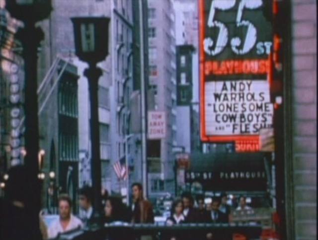 55thStreetPlayhouseNYC 55th Street Playhouse 154 E. 55th Street, New York, NY 10022 Photo Info Uploaded on: May 22, 2012 Size: 53.5 KB Views: 934